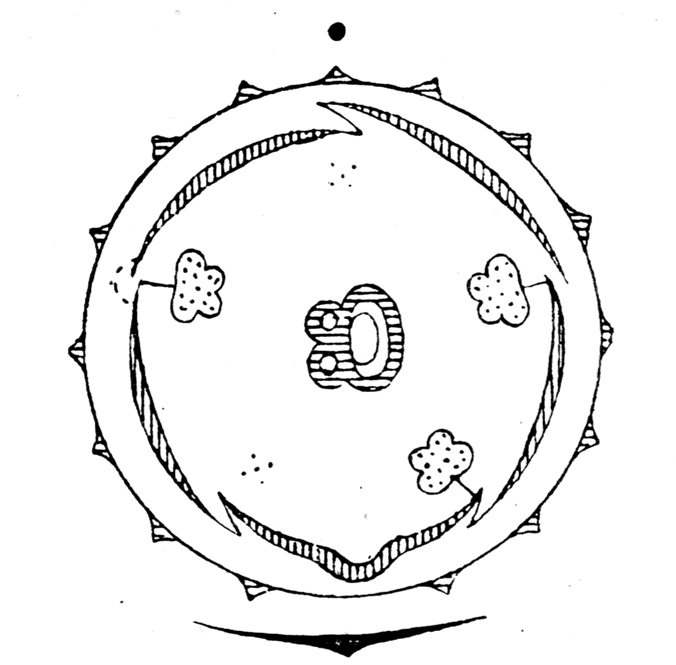 flower diagram of Valeriana